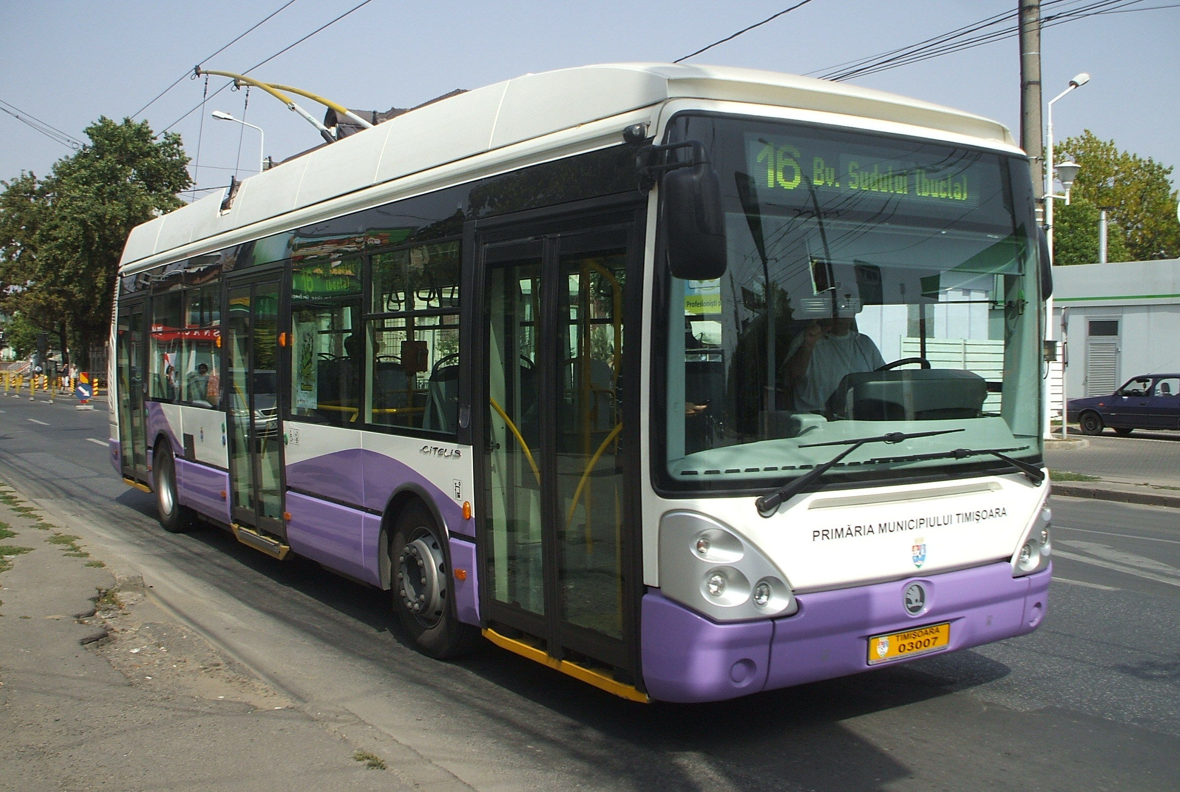 Timişoara trolleybus 3007, a 2008 Škoda 24Tr Irisbus Citelis, on route 16. It entered service in 2008.